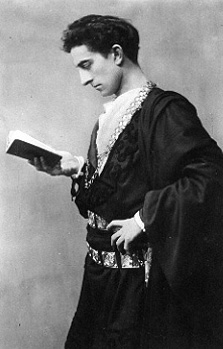 Johnston Forbes-Robertson as Hamlet, c. 1899. Downloaded from .